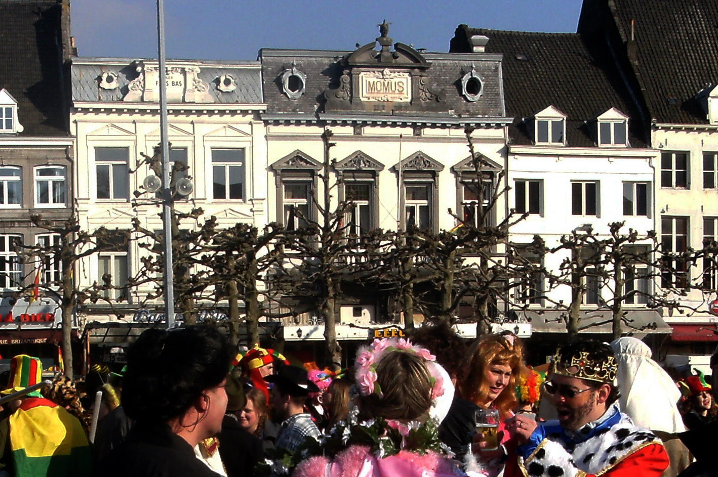 Maastricht, the Netherlands. View of the Momus building during Carnival 2011 celebrations. The Momus society organized the Maastricht carnival in 19th c. Detail of photograph taken by Mark Ahsmann in 2011 and uploaded to Wiki Commons.